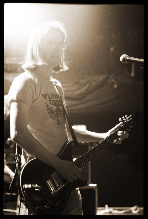 Steven Wilson's photo by Lasse Hoile